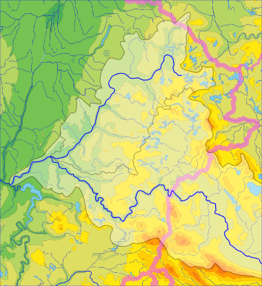 Neris basin / catchment area of Neris (down) and Šventoji (up) in relation to the Neman